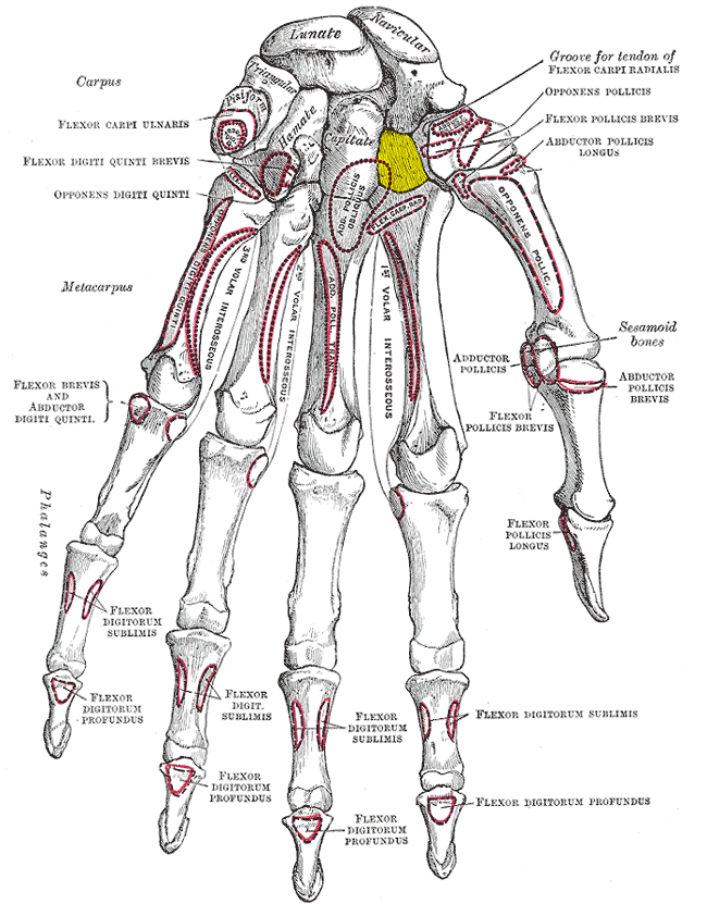 Bones of the left hand. Palmar surface.